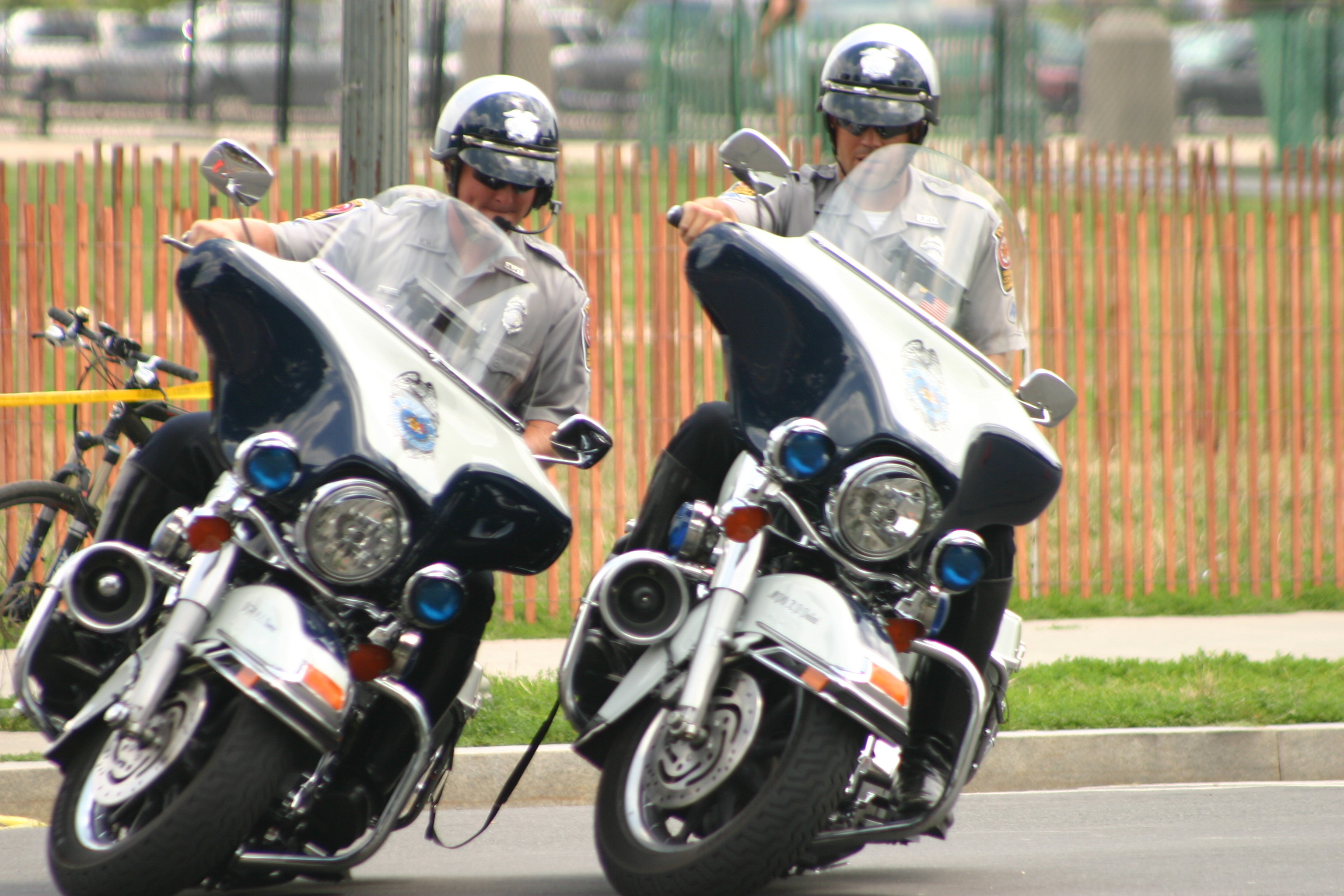 Fairfax County, Virginia, police participate in the National Police Motorcycle Rodeo on 3rd Street NW between Jefferson Drive NW and Madison Place NW in Washington, D.C., in the United States on 14 July 2007.